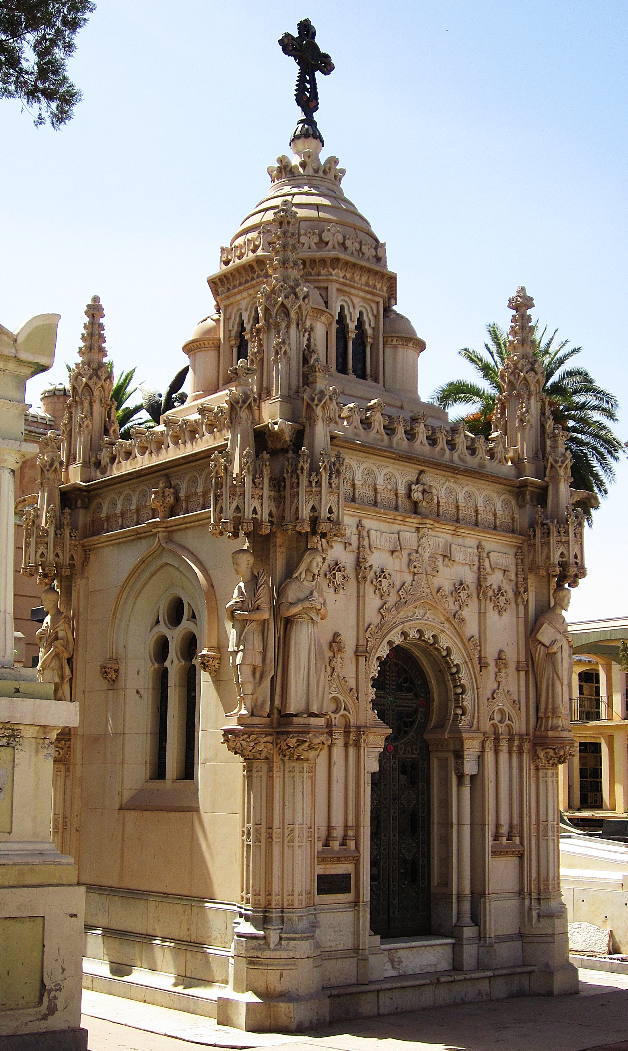 Mausoleo de estilo neogótico traído de Barcelona. Aquí yace el bodeguero español y comendador del rey Alfonso XIII, Rito Baquero.